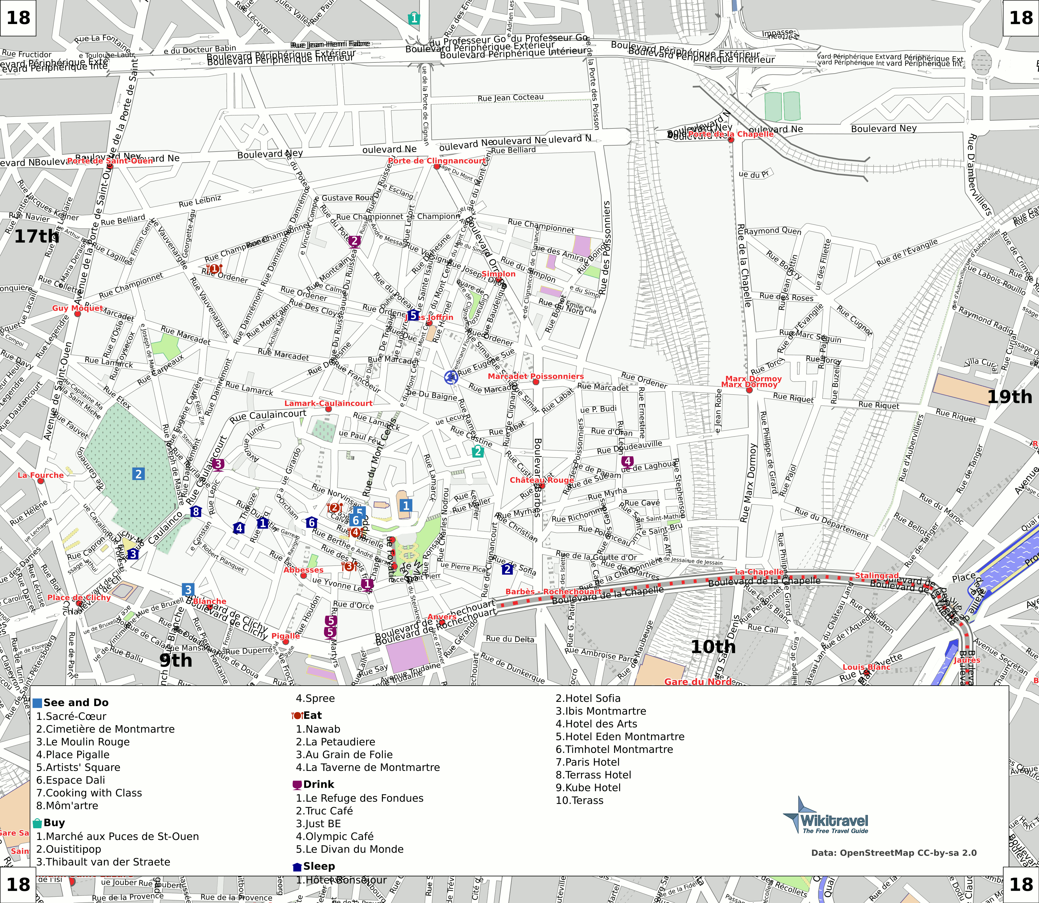 Map of the 18st arrondissement of Paris.